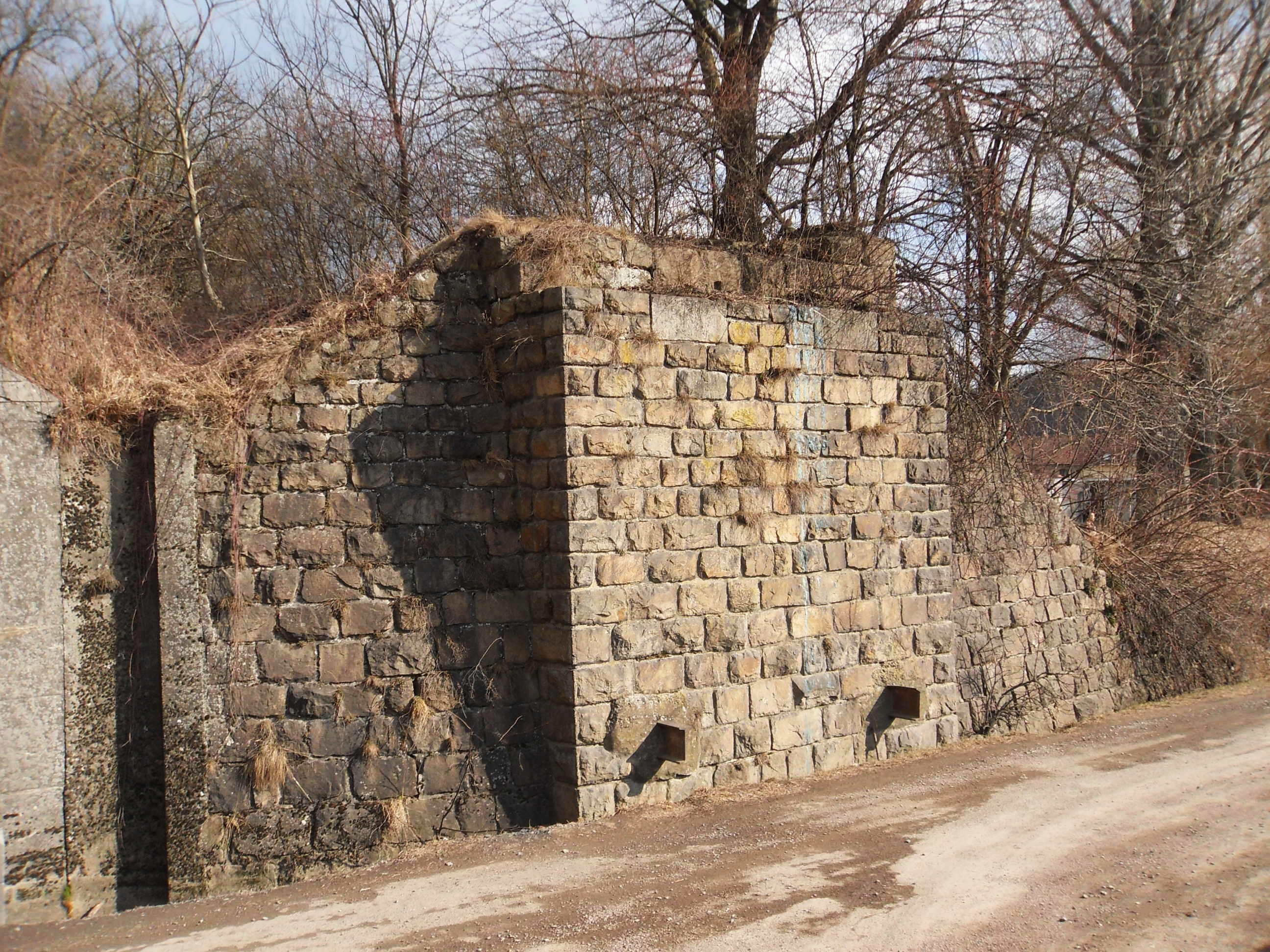 Former railway line Kuřim - Veverská Bítýška, Kuřim, Brno-venkov District, Czech Republic